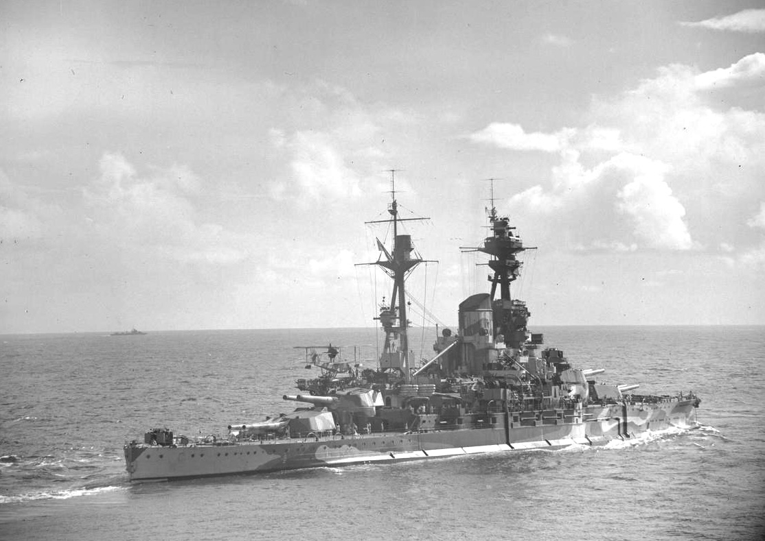 The Royal Navy during the Second World War HMS RESOLUTION at sea during operations off Madagascar.